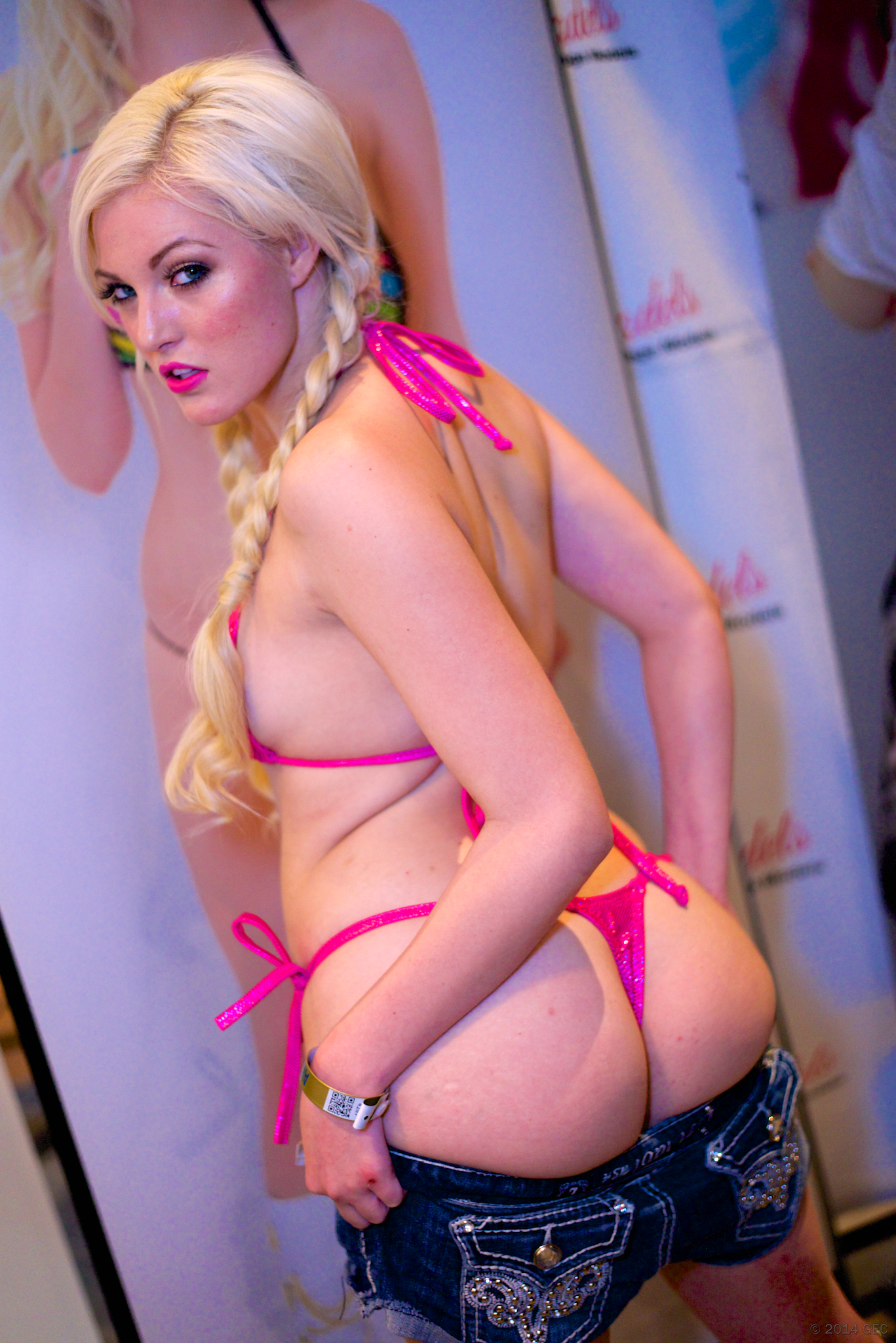 Jenna Ivory at the 2014 AVN Adult Entertainment Expo AEE at Hard Rock Hotel - Las Vegas. 2014 © GEC. Video footage